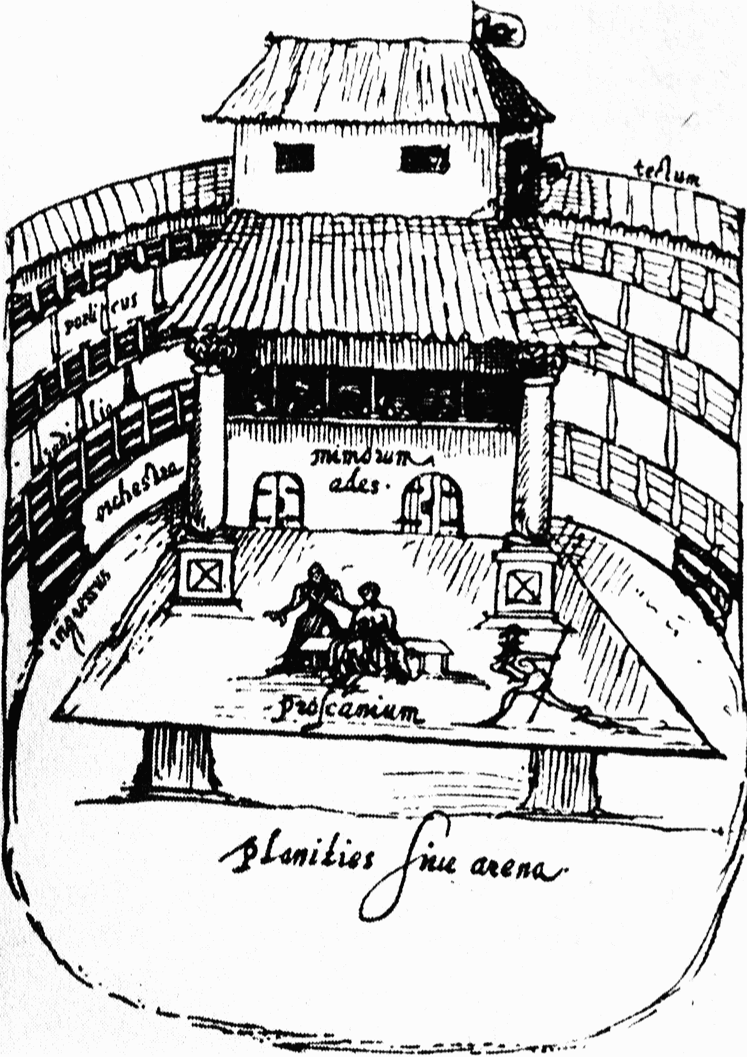 Interior view of the Swan theatre in Shakespeare's age. After a drawing of Johann de Witt 1596.